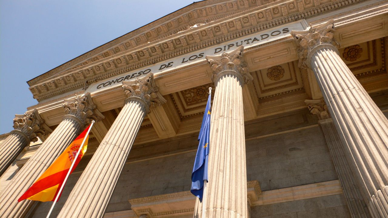 Detail of the main façade of the Spanish Congress of Deputies. Built in Madrid between 1843 and 1850. Architect: Narciso Pascual y Colomer (1808–1870).